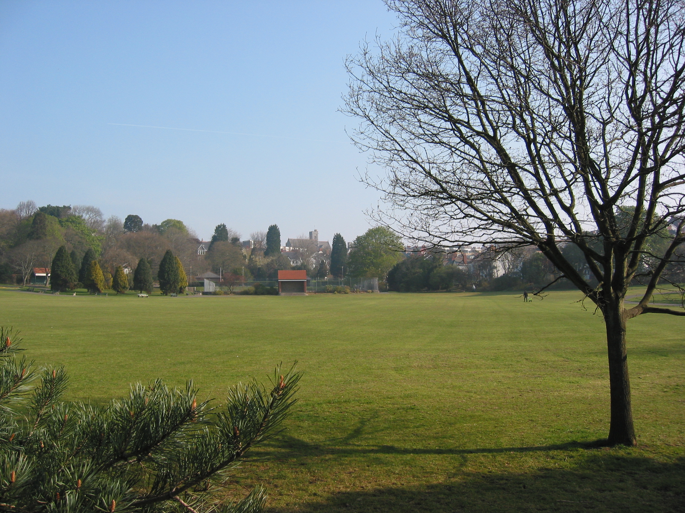 View of Romilly Park, Barry with All Saints Church in the background